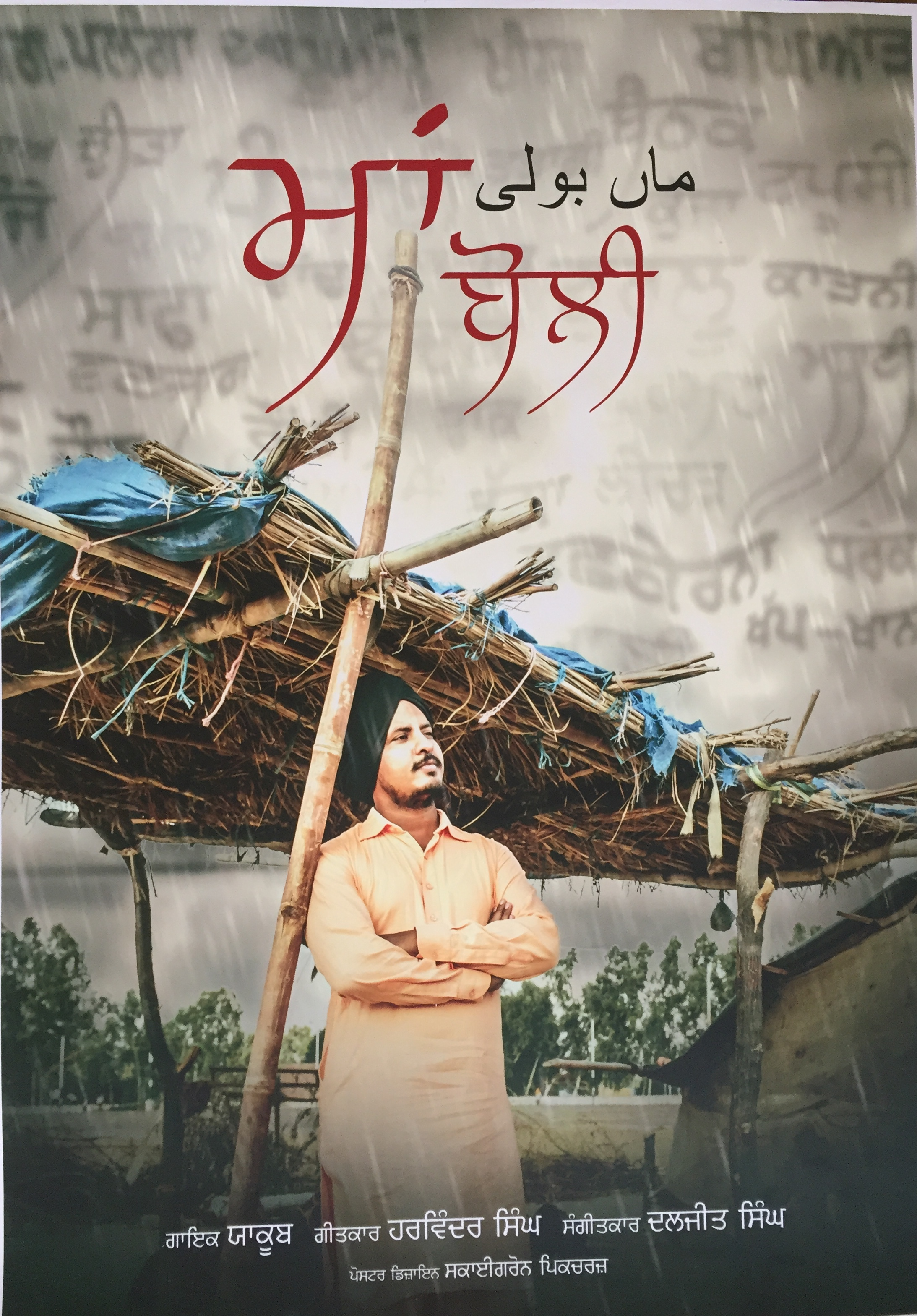 Poster of Maa Boli Punjabi song writtenung by Harvnder Singh and sung by Yakoob